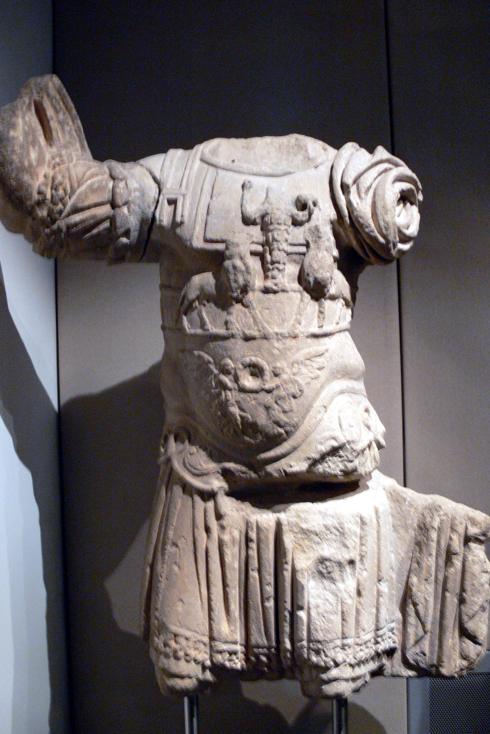 Museum Carnuntinum ( Lower Austria ). Armoured statue ( 2nd century ) of an Roman emperor with relief of Iupiter Heliopolitanus at the armour.